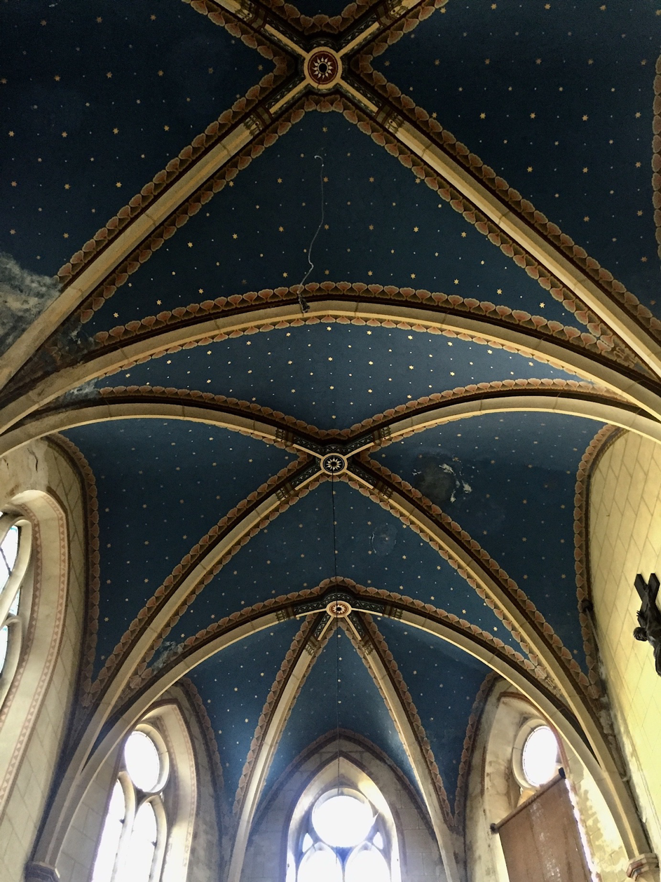 desc